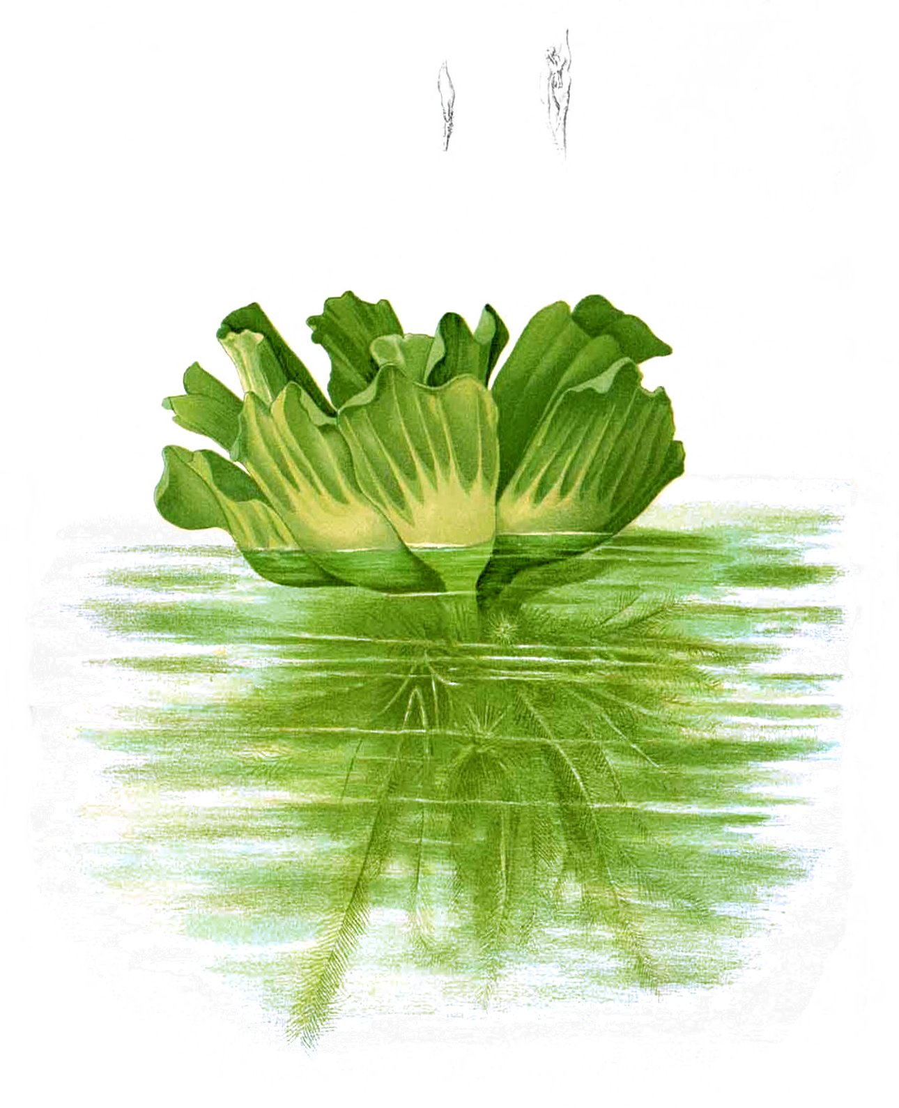 Plate from book